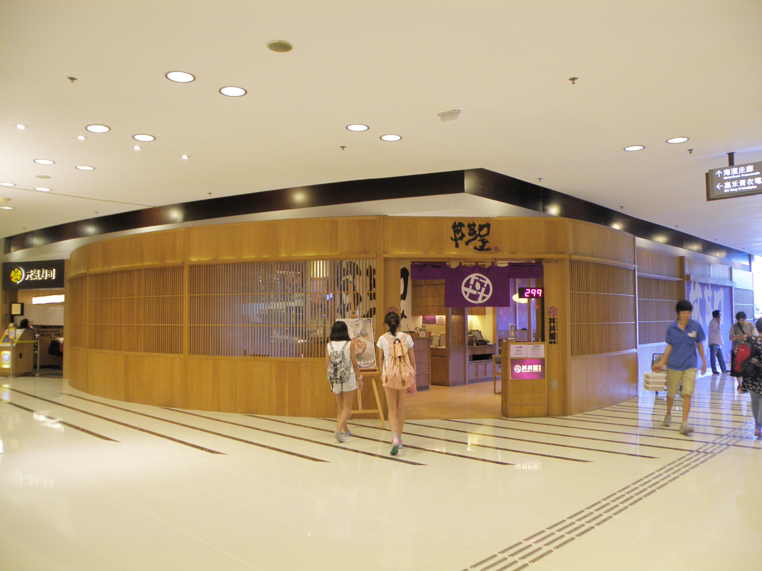 Dondonya in Tsing Yi, Hong Kong.